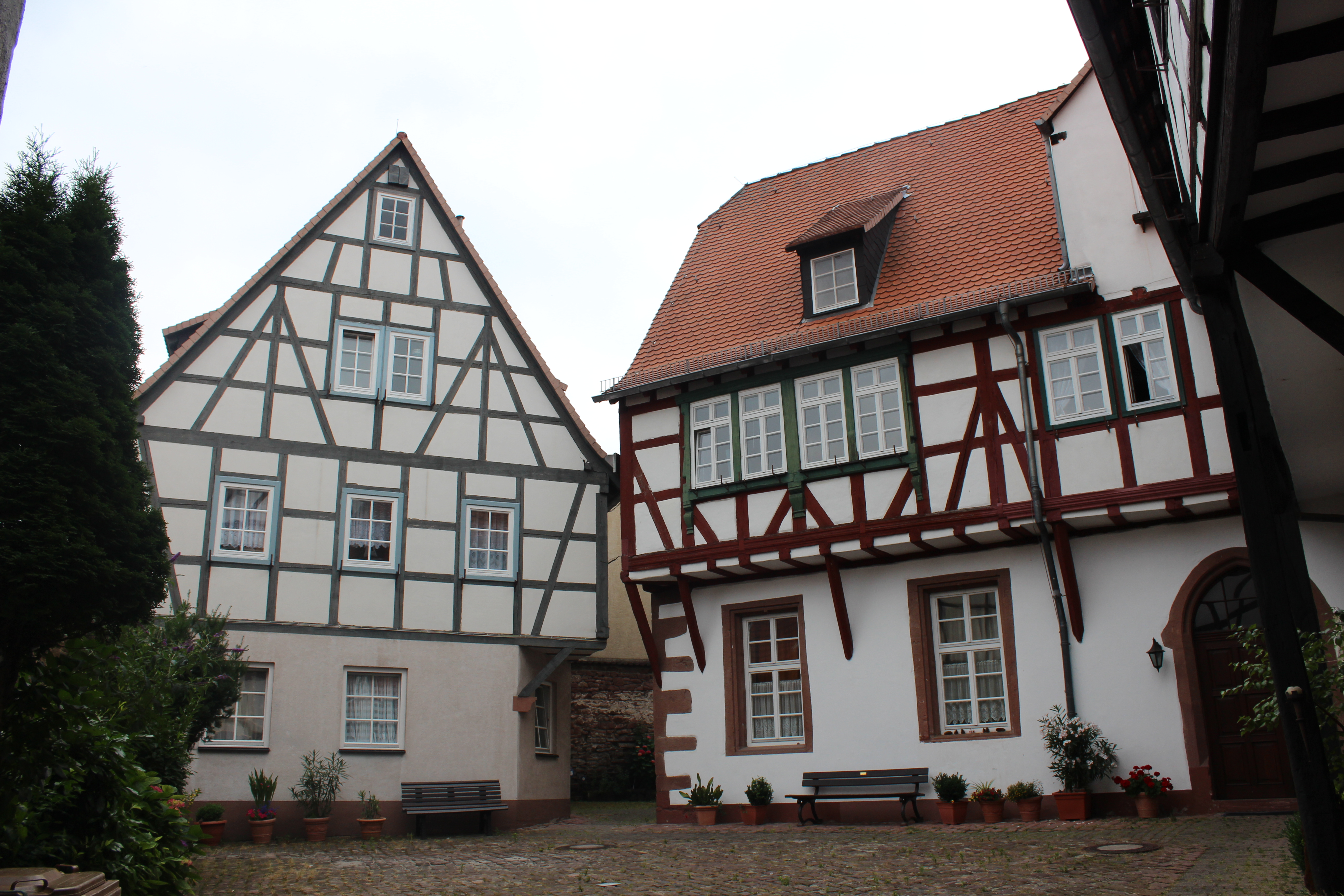 Neckarsteinach, Hesse, Germany